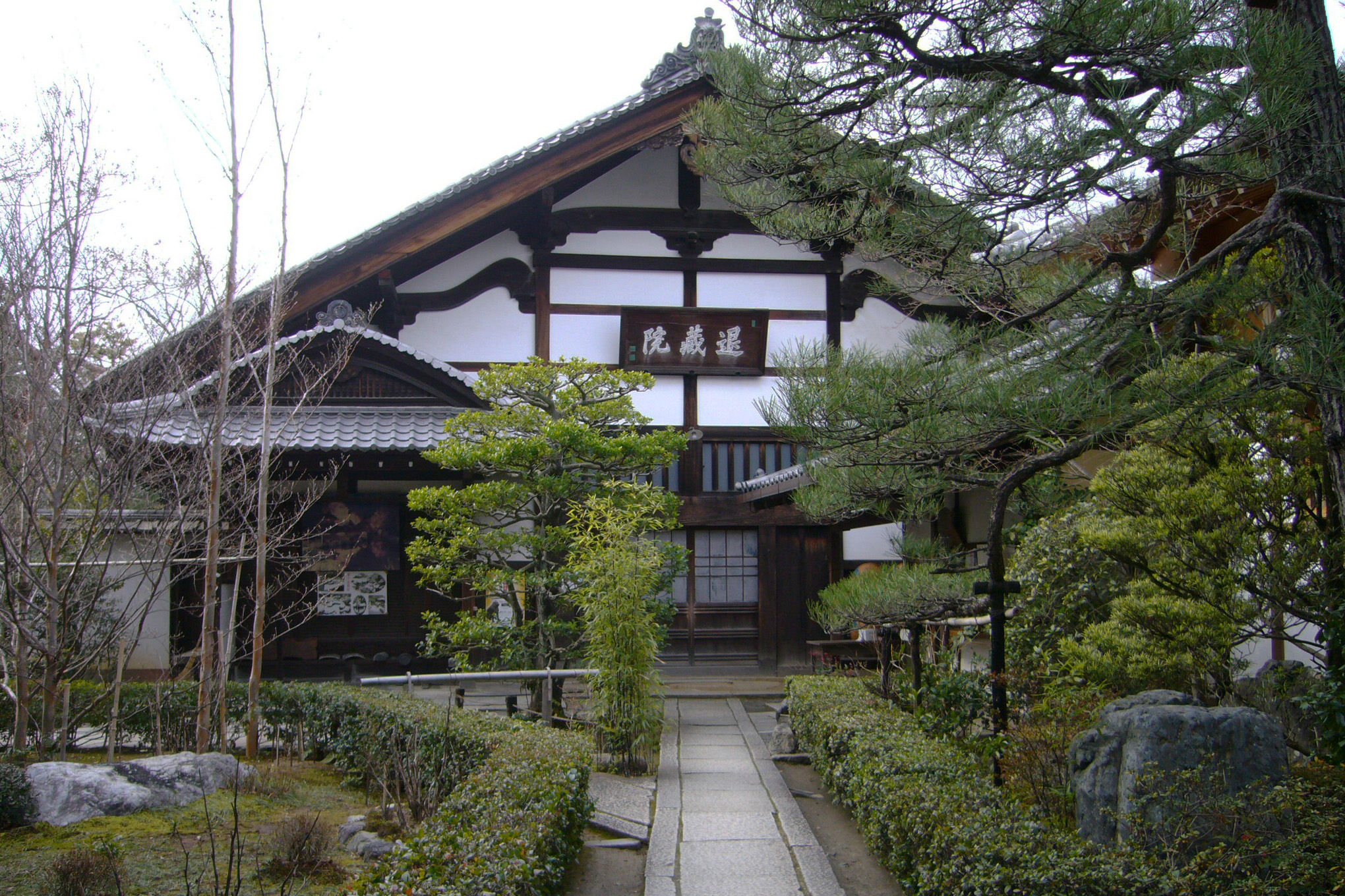 Myoshinji Taizoin, Kyoto, Kyoto prefecture, Japan